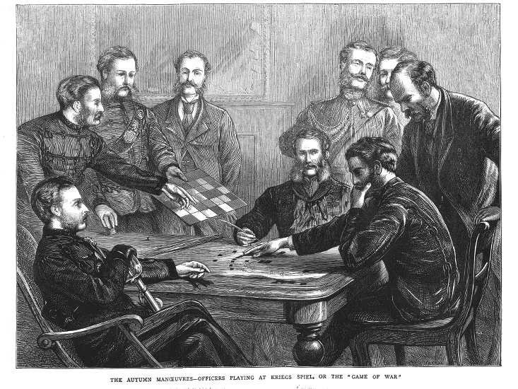 Prussian officers playing Kriegsspiel. Illustration from The Graphic.